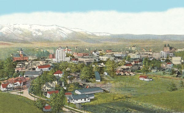 Postcard: Aerial view of Baker, 1918 postmark (except the tower in the middle wasn't even built until 1929) Description: Store Web page states: "ON THE OREGON TRAIL. BAKER, OREGON OR after 1929 [...] This is a High Quality Reproduction of the Antique Postcard" Source: eBay store Web page